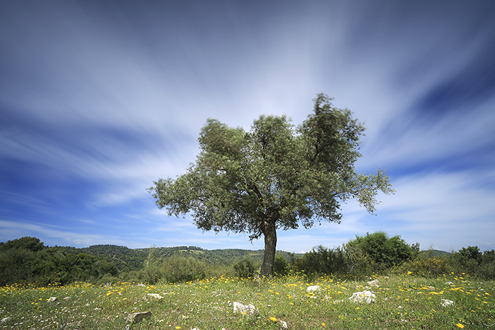 Olive tree in one of the peaks of Mount Carmel over color and spring flowering.